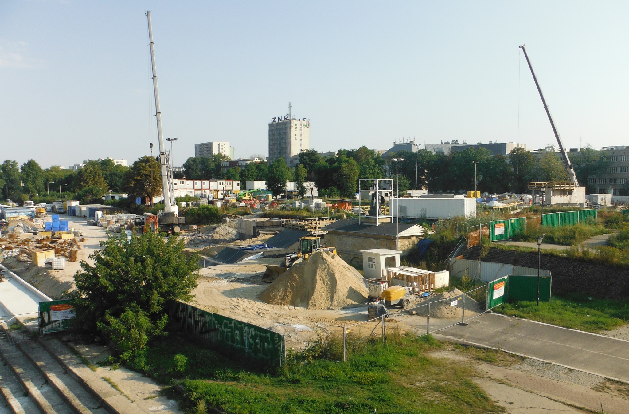 Centrum Nauki Kopernik metro station (under construction) in Warsaw (2nd of August 2014).